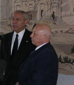 Secretary Powell with Palestinian Authority Prime Minister Ahmed Qurei speak to the press. Secretary Powell was in Jordan for the World Economic Forum meetings on May 15 and 16., Queen Alia International Airport, Amman, Jordan